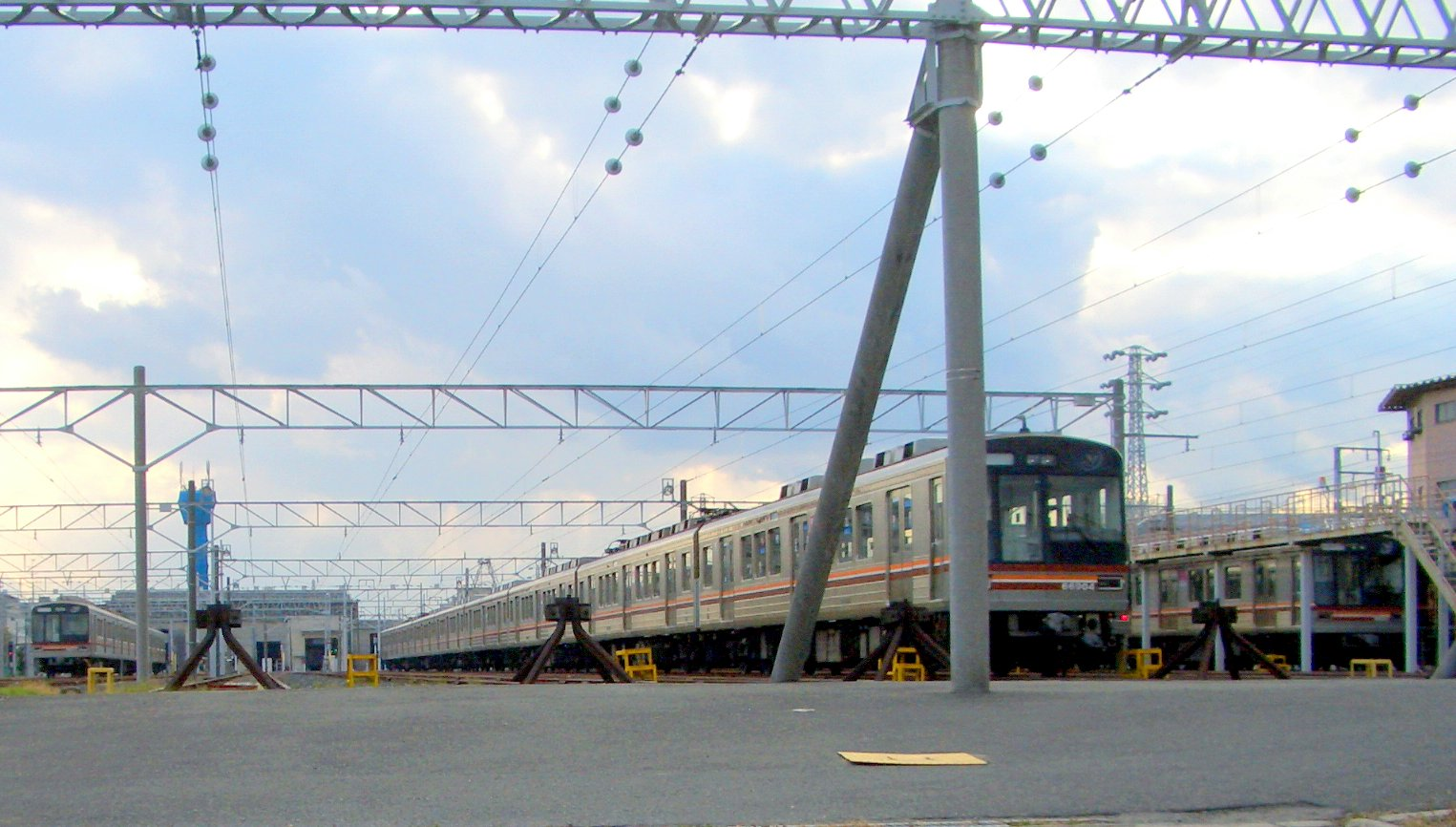 Osaka Municipal Subway Higashi-Suita Depot in Suita, Osaka Prefecture, Japan